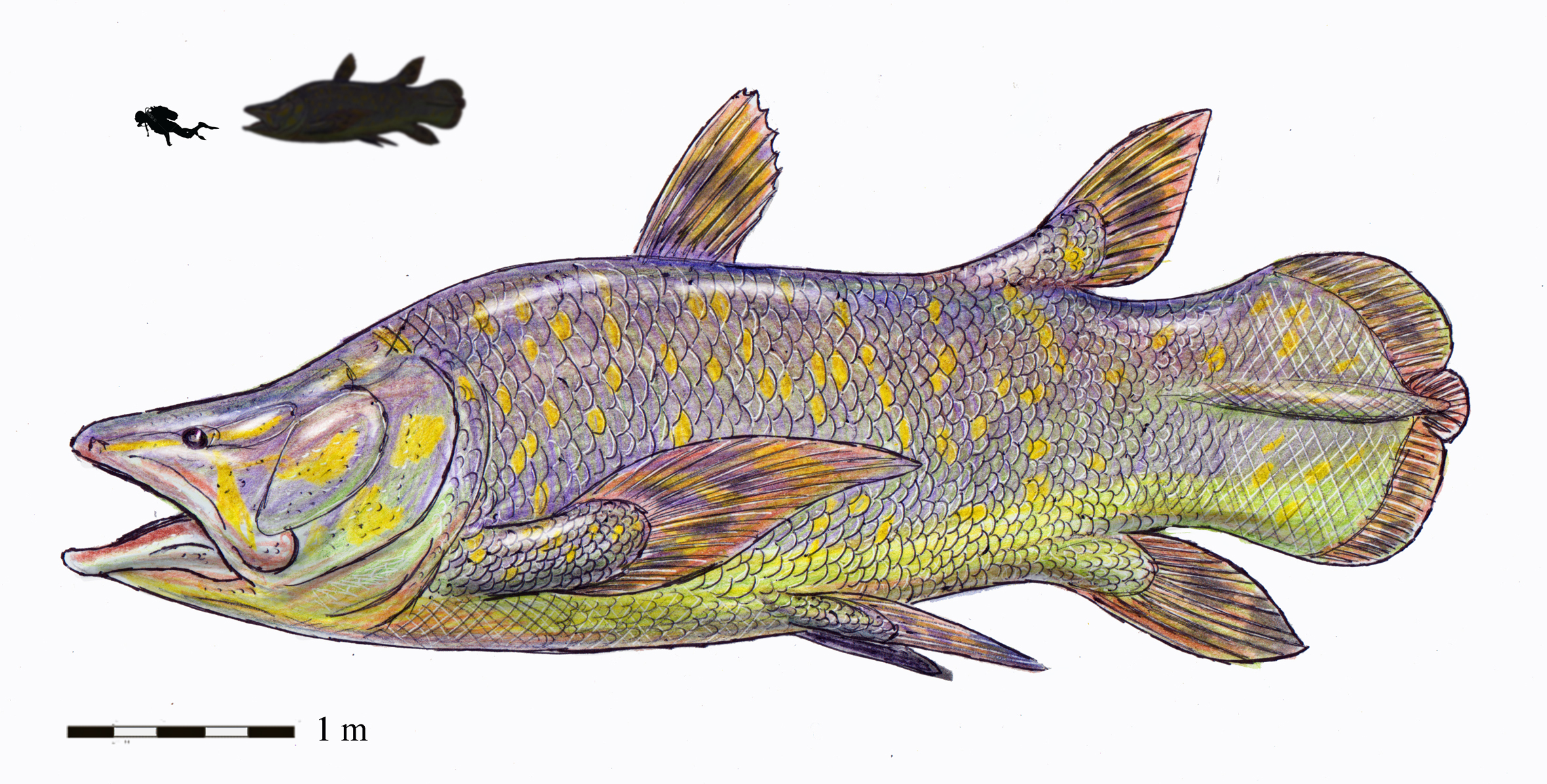 Mawsonia , giant coelocanth from the Cretaceous period (Albian and Cenomanian stages) of South America and North Africa